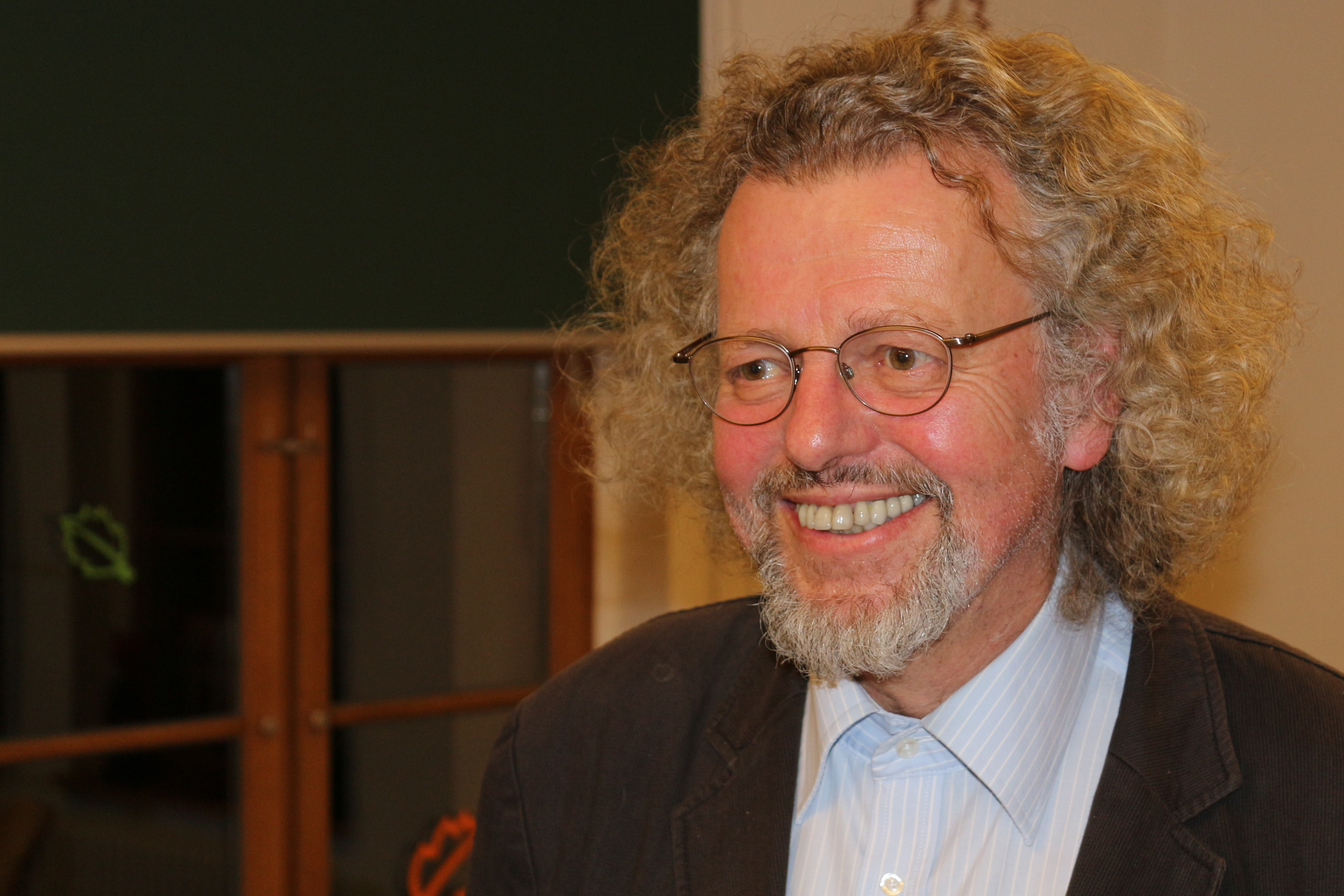 German writer Thomas Rosenlöcher after a poetry reading at the Karl-Preusker-Bücherei in Großenhain, Saxony